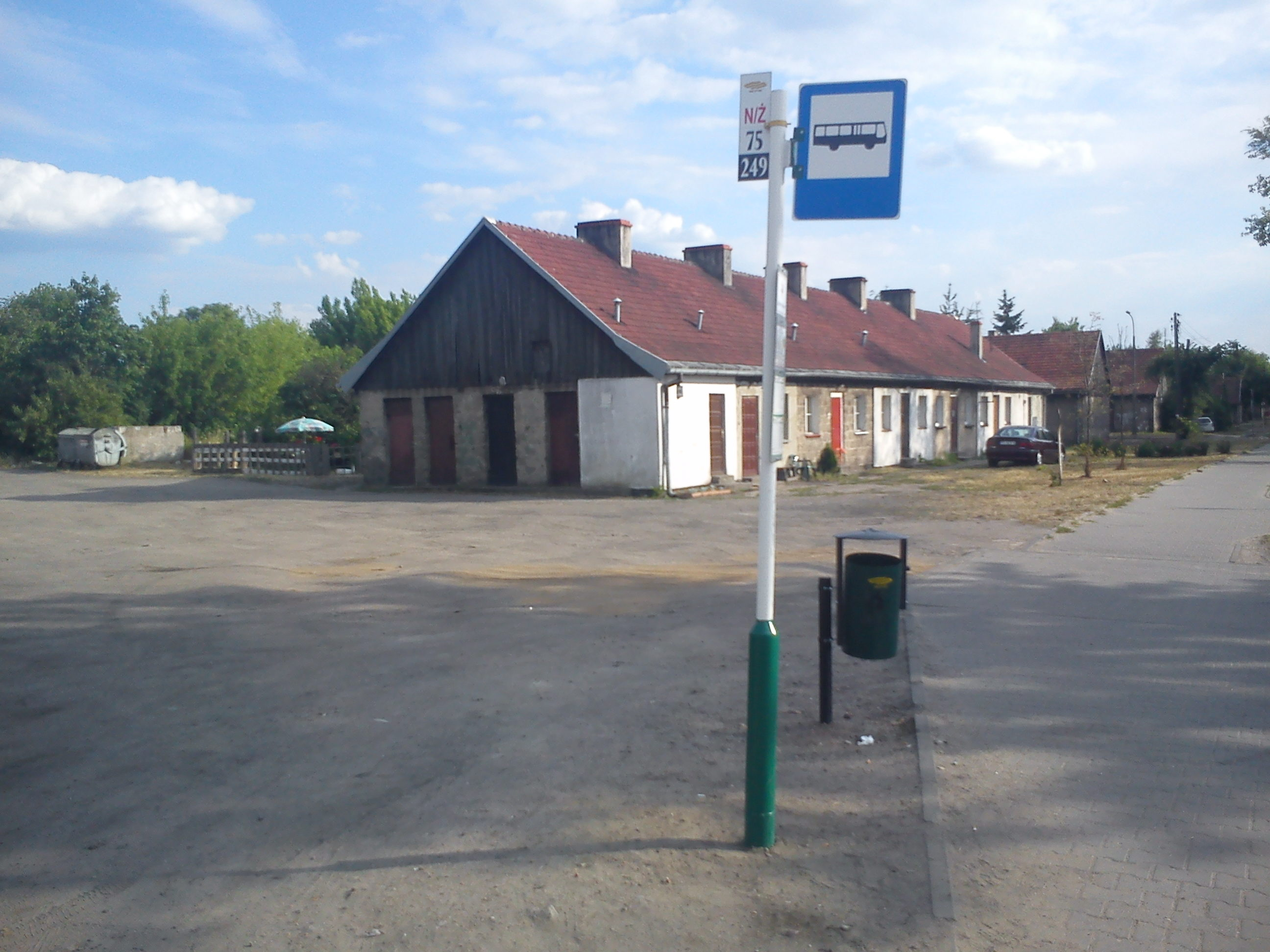 Opolska Street, Poznan. Old Barracks .